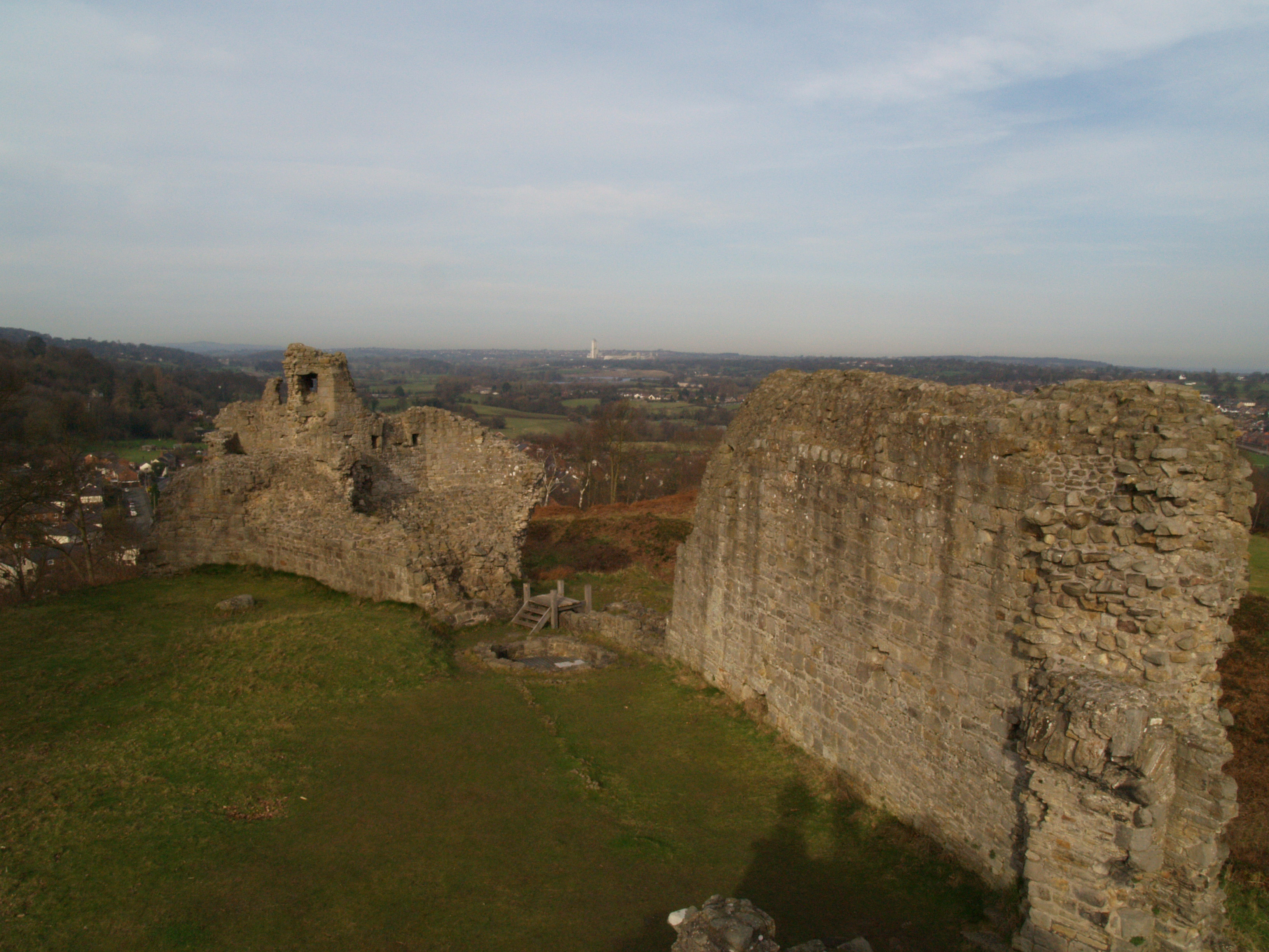 Caergwrle Castle in Wales